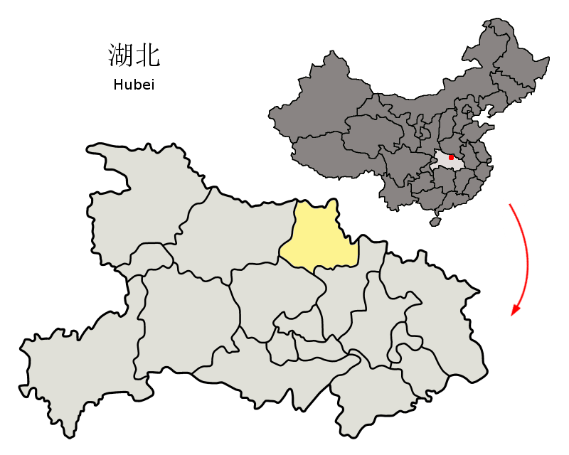 Location of Suizhou Prefecture (yellow) within Hubei Province of China Map drawn in december 2007 using various sources, mainly : Hubei Province administrative regions GIS data: 1:1M, County level, 1990 Hubei Counties map from